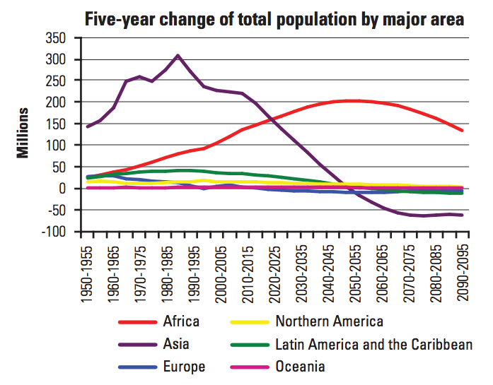 Chart